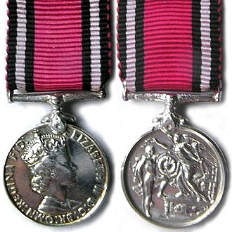 The first Queen Elizabeth II version of the Queen's Medal for Champion Shots in the Military Forces (Miniature)